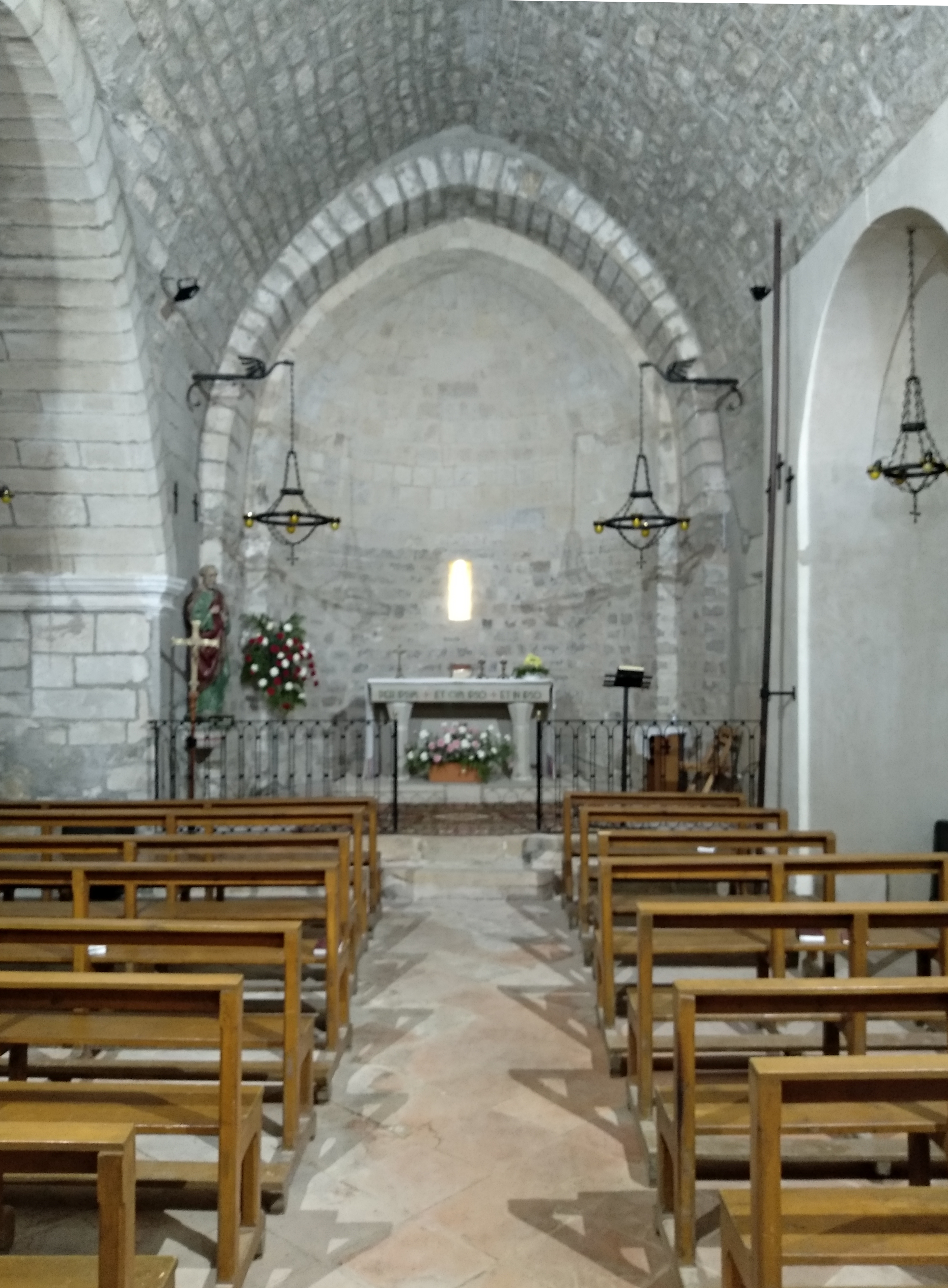 Inside of Saint Peter of l'Ametlla, parish church of l'Ametlla de Segarra, Catalonia.